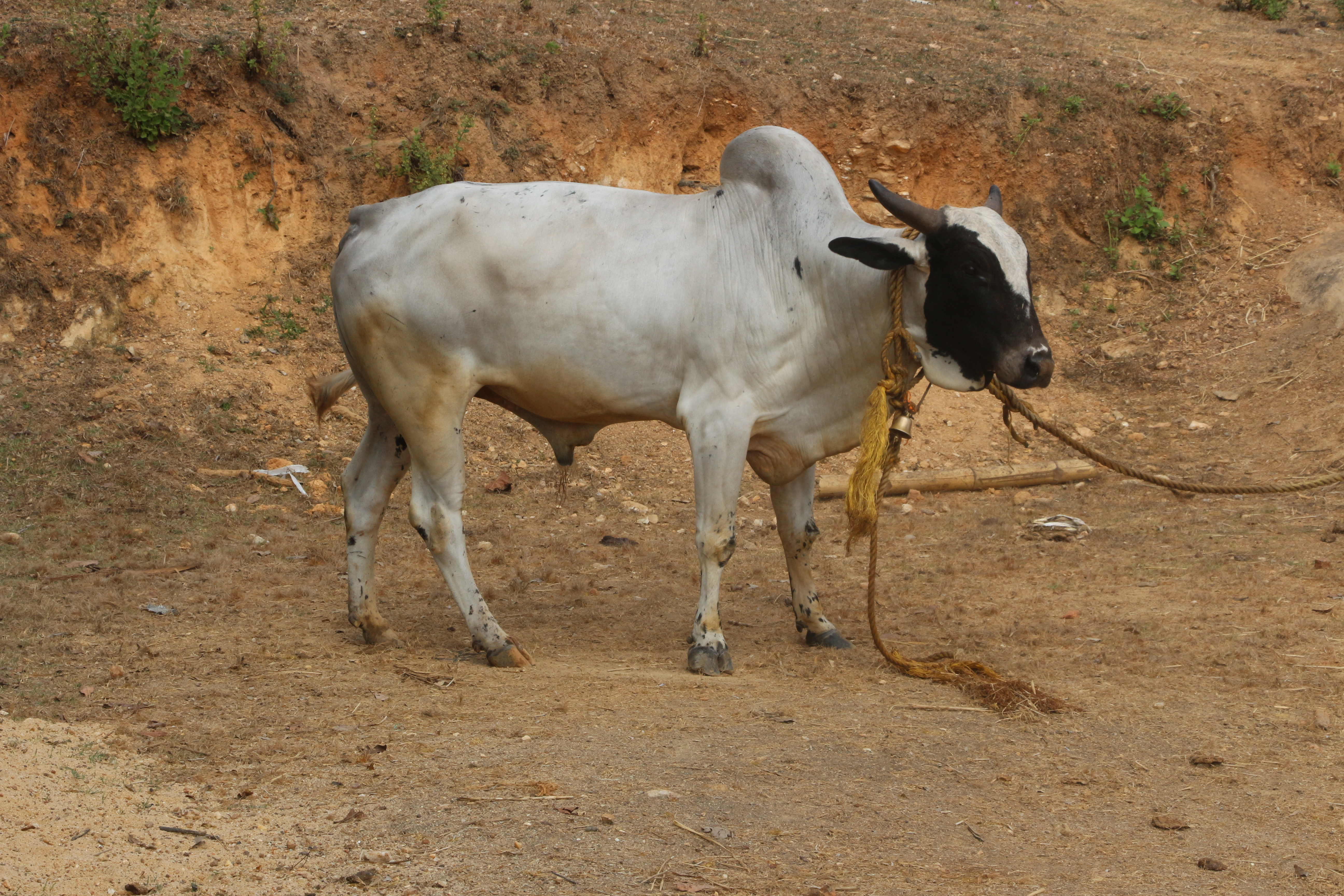 Indian cow breed Deoni ಕನ್ನಡ: ಭಾರತೀಯ ಗೋತಳಿ ದೇವನಿ